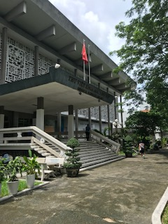 View of the library from the front of the building